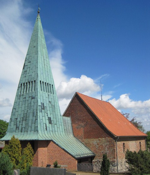 Gothic church in Hamberge. The tower replaced the old wooden one of similar shape after a fire in 1957.